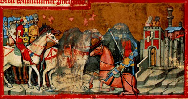 Chronicon Pictum The fight of the Hungarian Captain Botond against the greek warrior of the byzantine emperor.